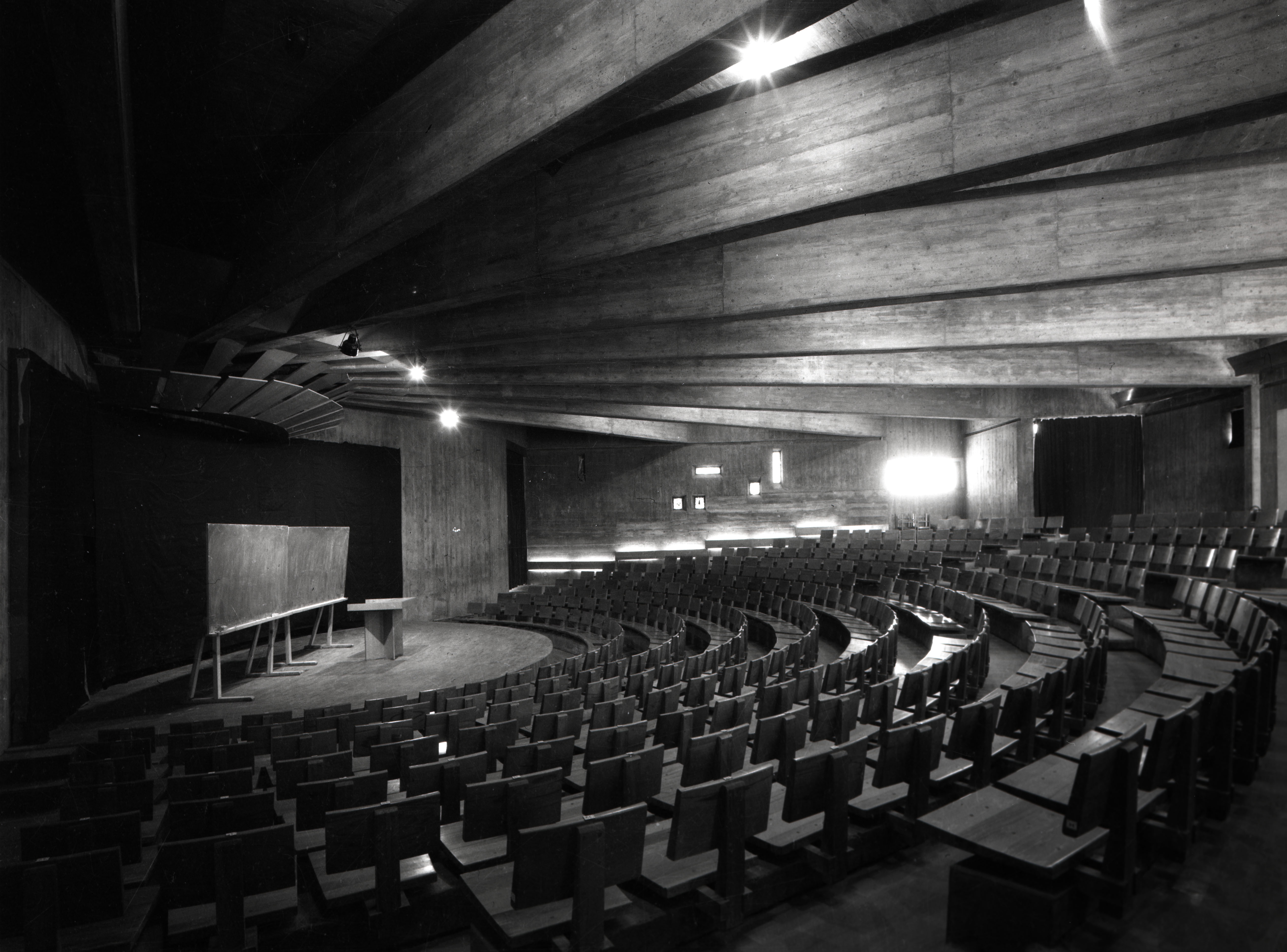 METU, Faculty of Architecture, lecture hall, 1961-1980 SALT Research, Altuğ-Behruz Çinici Archive ODTÜ Mimarlık Fakültesi, amfi, 1961-1980 SALT Araştırma, Altuğ-Behruz Çinici Arşivi